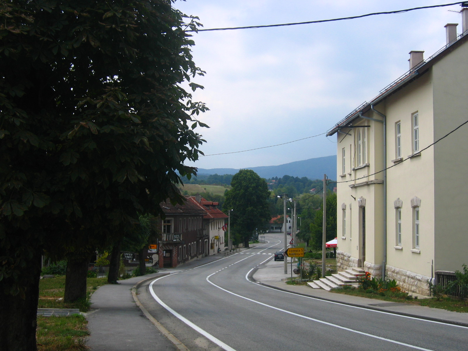 Town center of Rakovica, Croatia